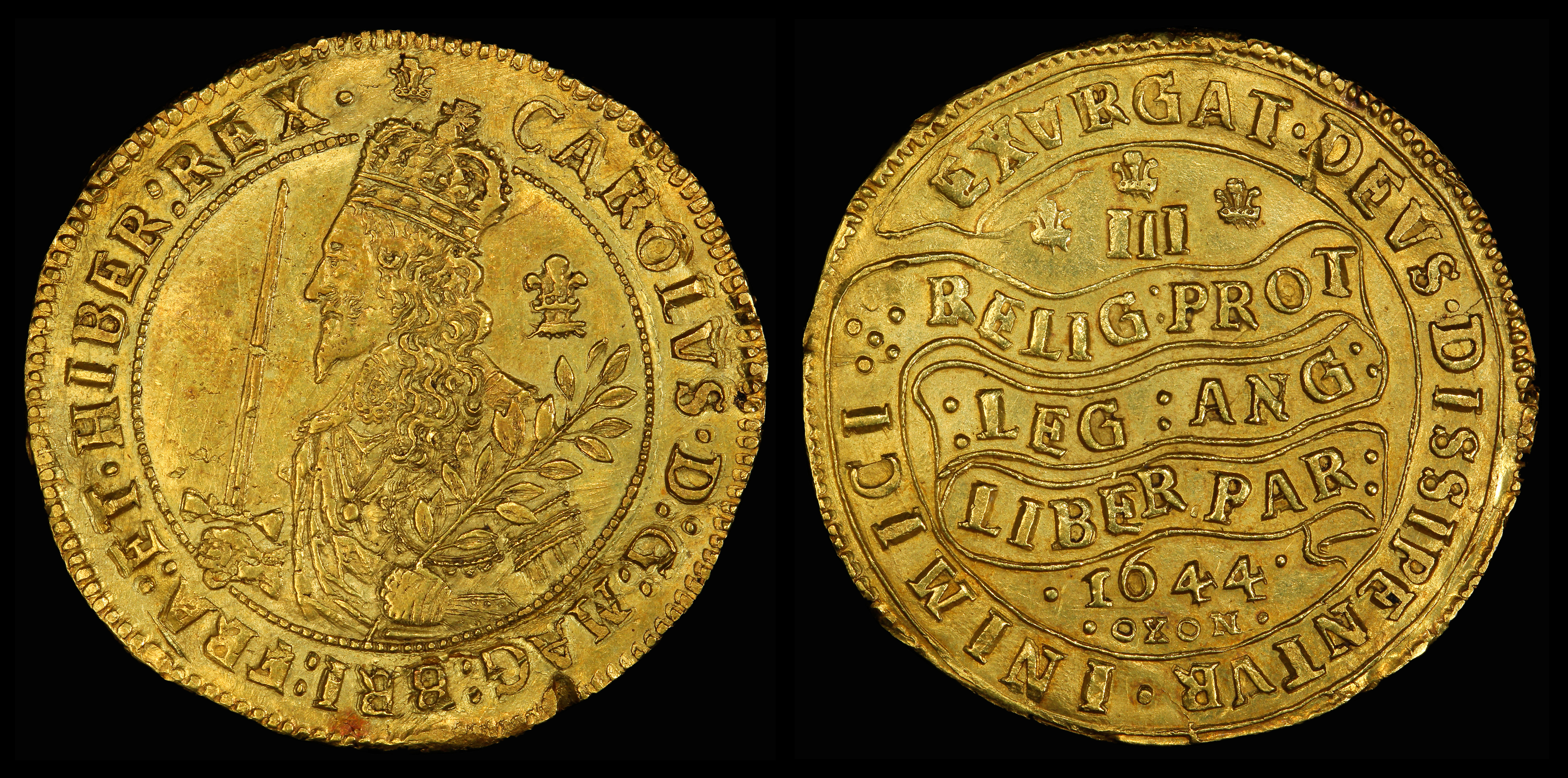 England (Great Britain) 1644 Triple Unite of Charles I